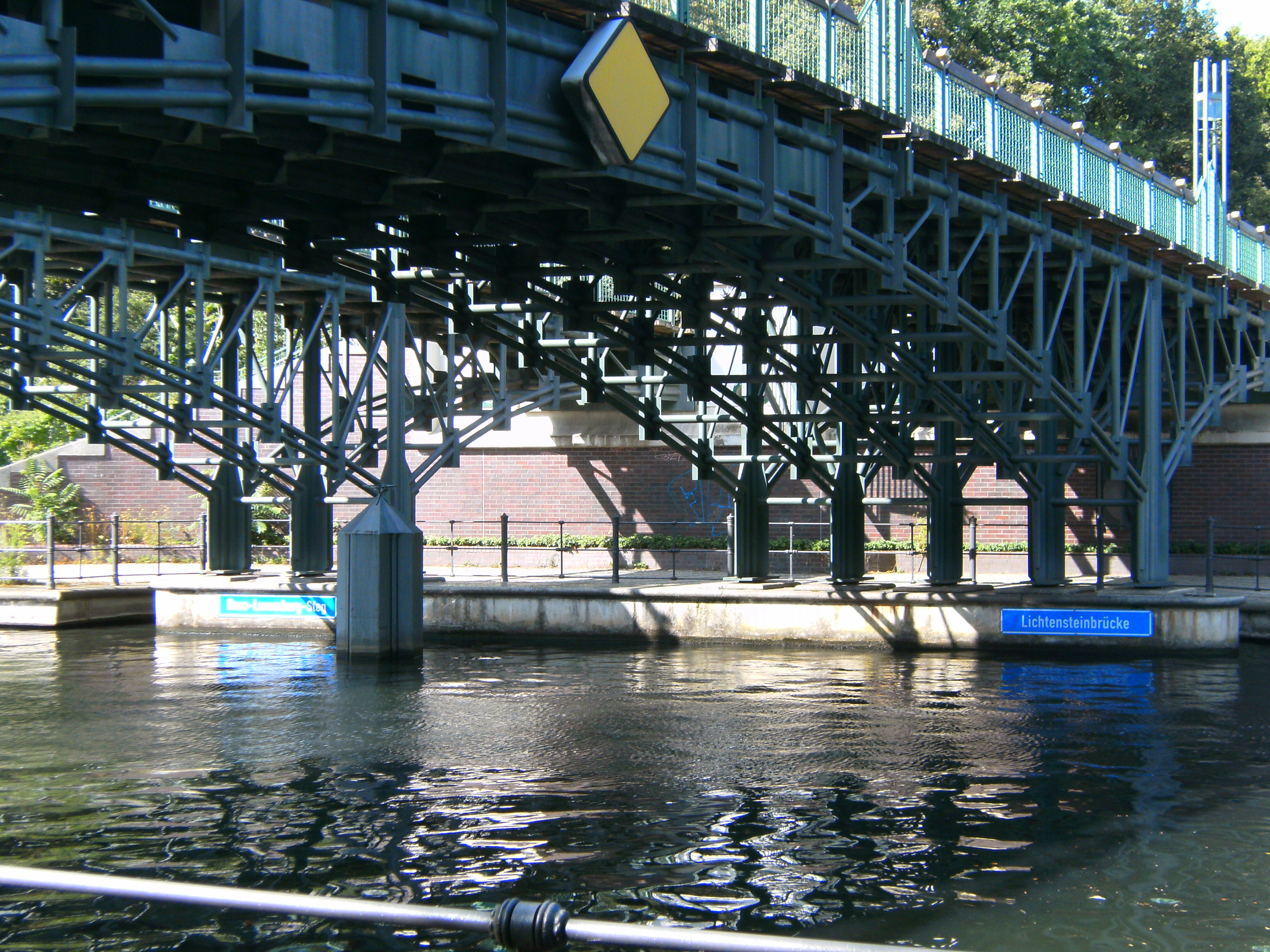 Park Großer Tiergarten in Berlin, two neighbouring bridges over Landwehrkanal: Lichtensteinbrücke and Rosa-Luxemburg-Steg.